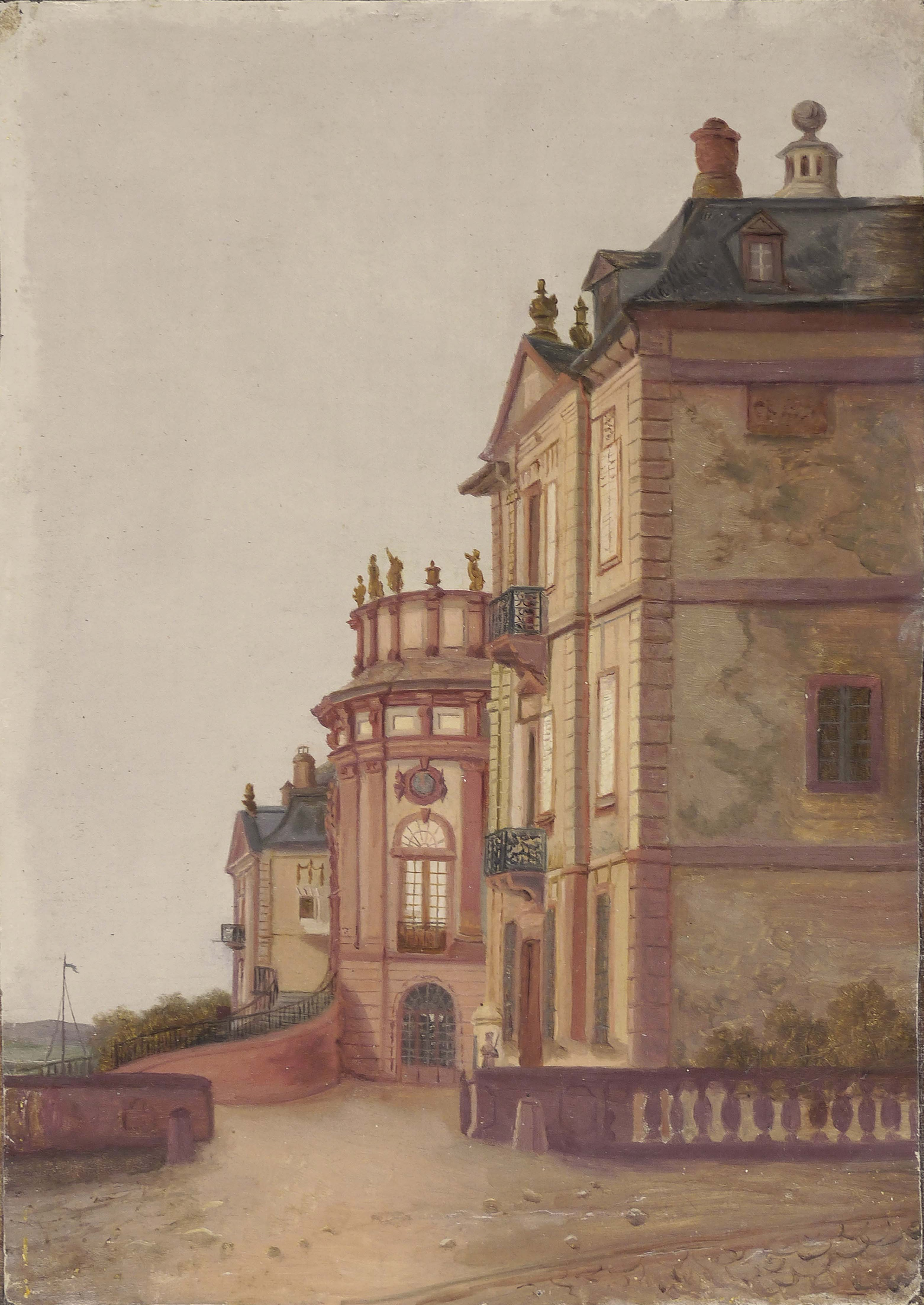 Ludwig Knaus (1829-1910): Biebrich Palace